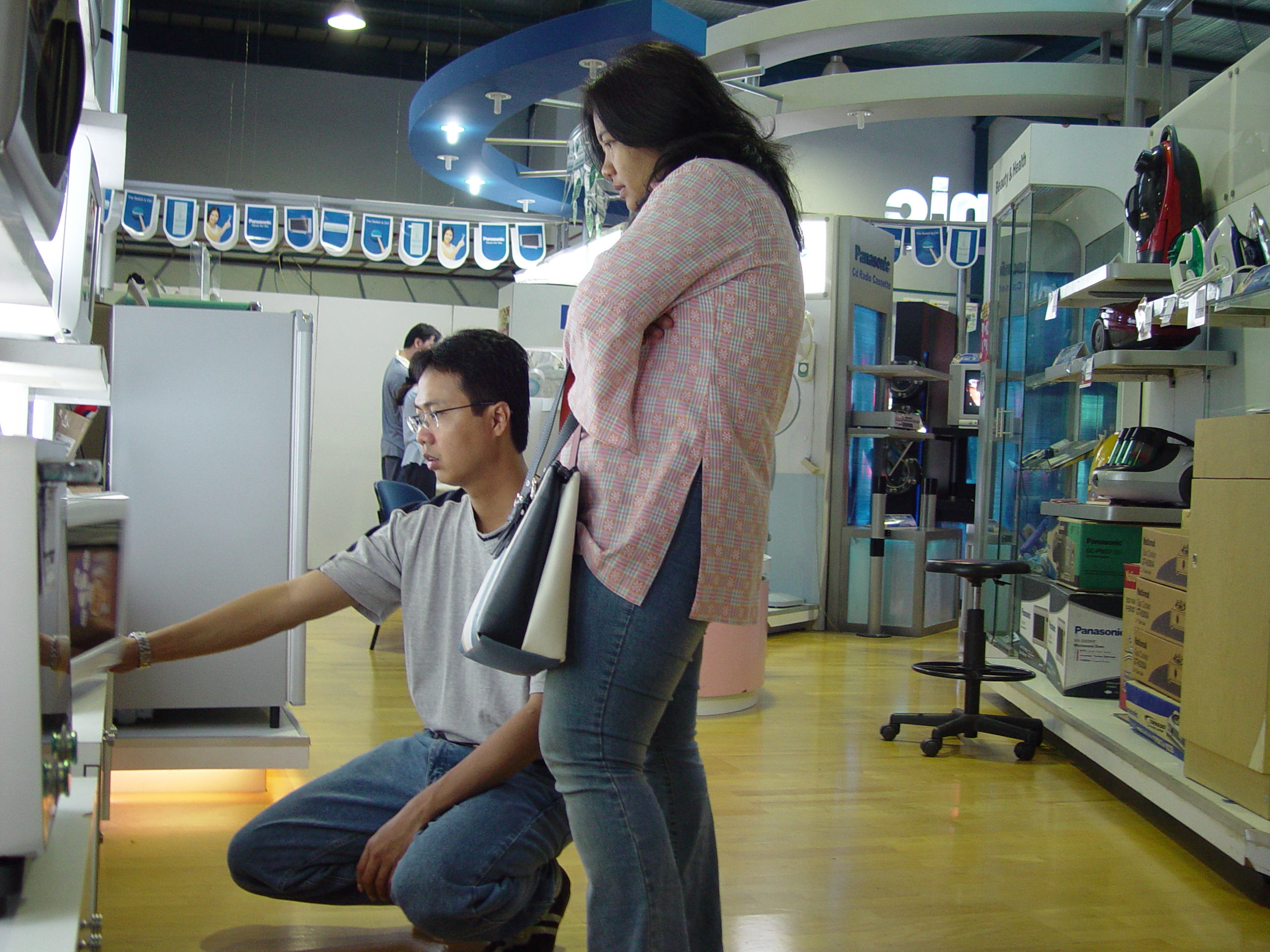 Mall cultural in Jakarta, Indonesia.